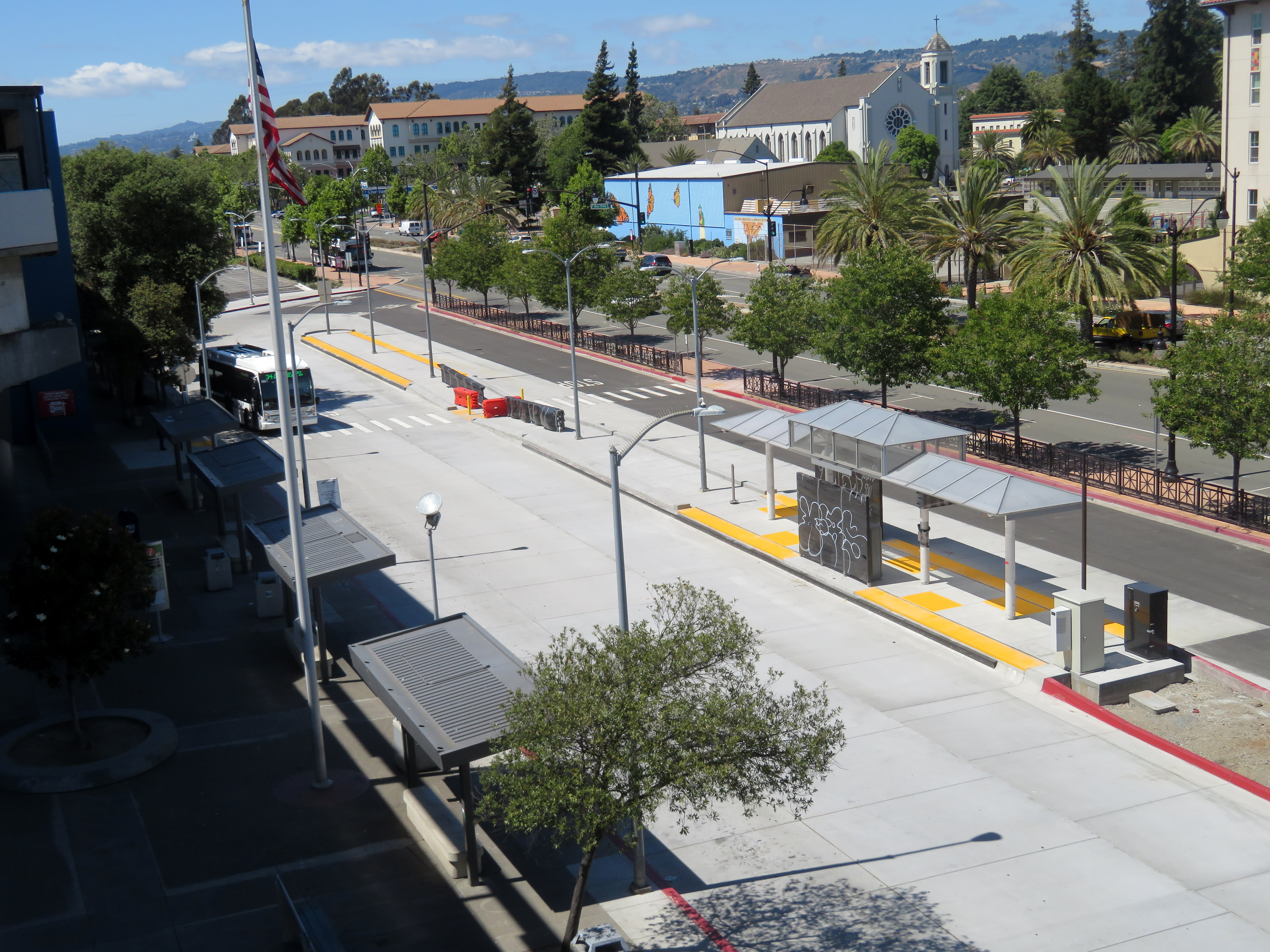 The completed East Bay BRT platform at San Leandro station in June 2020